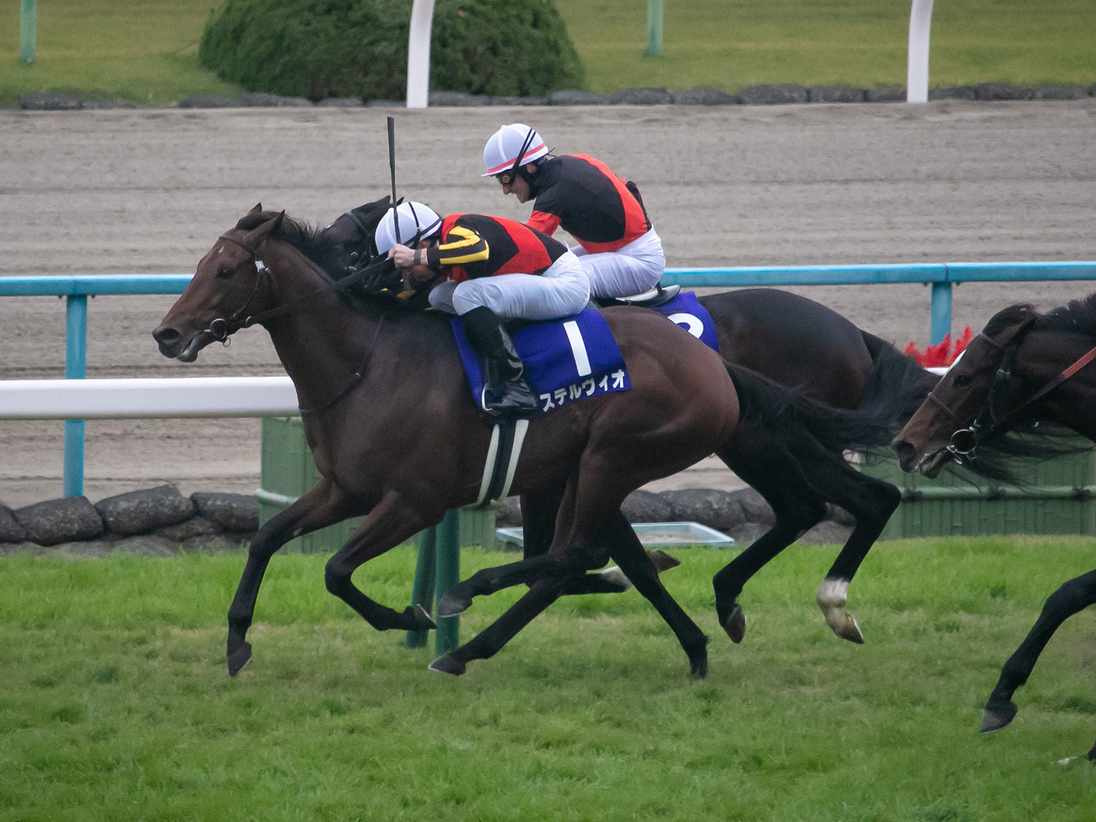 Stelvio(JPN), Racehorse of Japan.